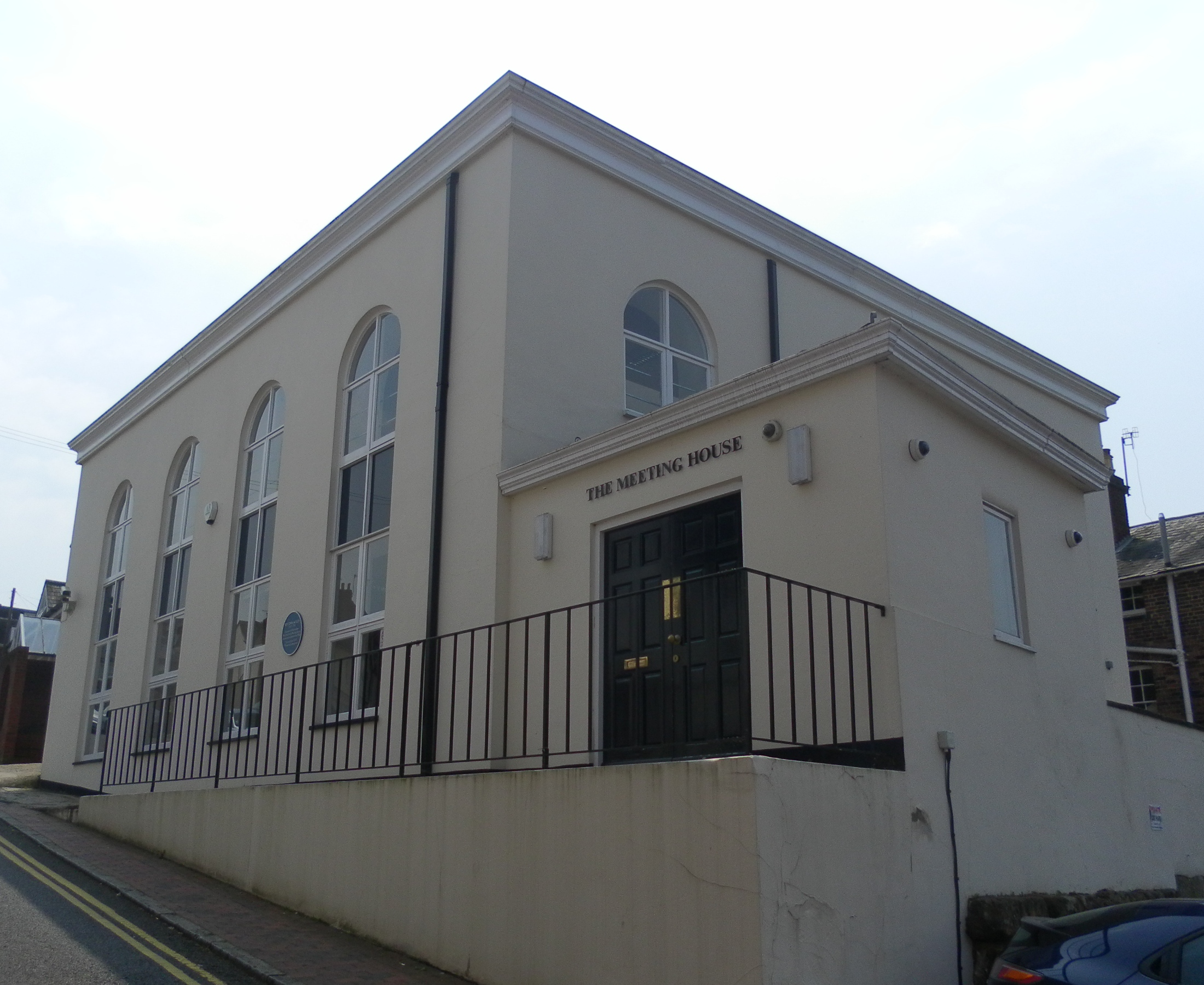 Former Mount Sion Chapel (Presbyterian Meeting House), Little Mount Sion, Royal Tunbridge Wells, Borough of Tunbridge Wells, Kent, England. A historic chapel where John Wesley preached on a number of occasions in the 18th century. Now an office.